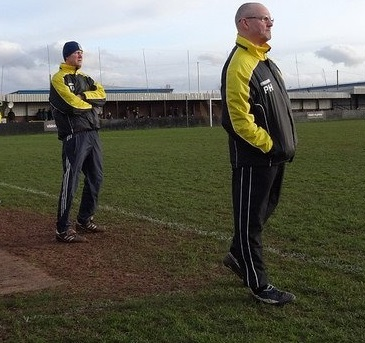 Manager Andy Graves (left) with his Assistant Phil Henry (Right)